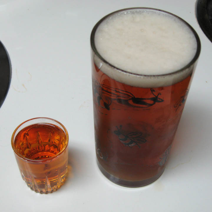 Photograph of a boilermaker - whiskey and beer